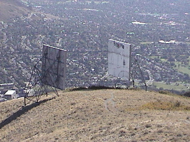 Flat reflectors seen from the summit of Wire Mountain. These were removed in late 2013.